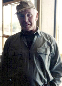 Johnny Carson in Kilimanjaro Airport, Tazania, East Africa in 1994.